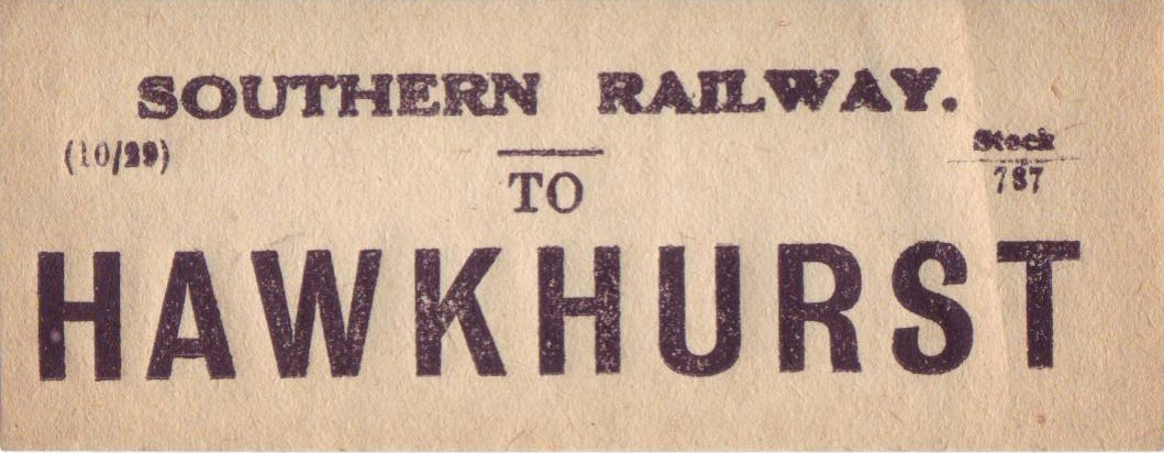 Baggage label issued by the Southern Railway in respect of Hawkhurst railway station at some point prior to nationalisation in 1948.